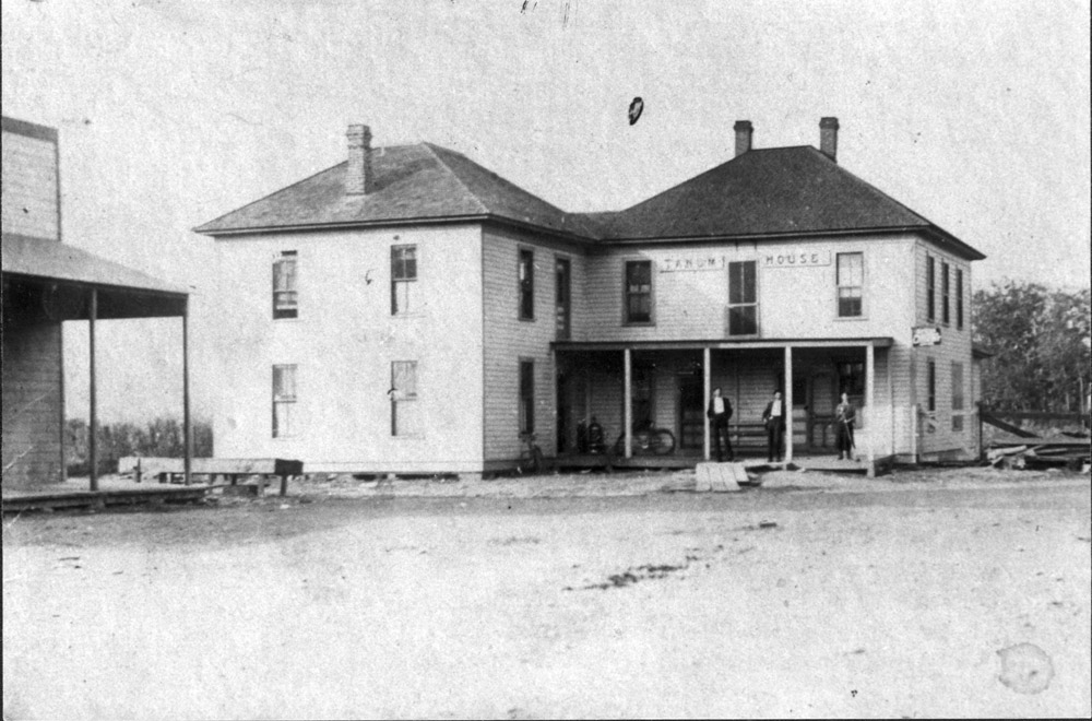 Tanum House ca. 1915, Thorp, Washington.